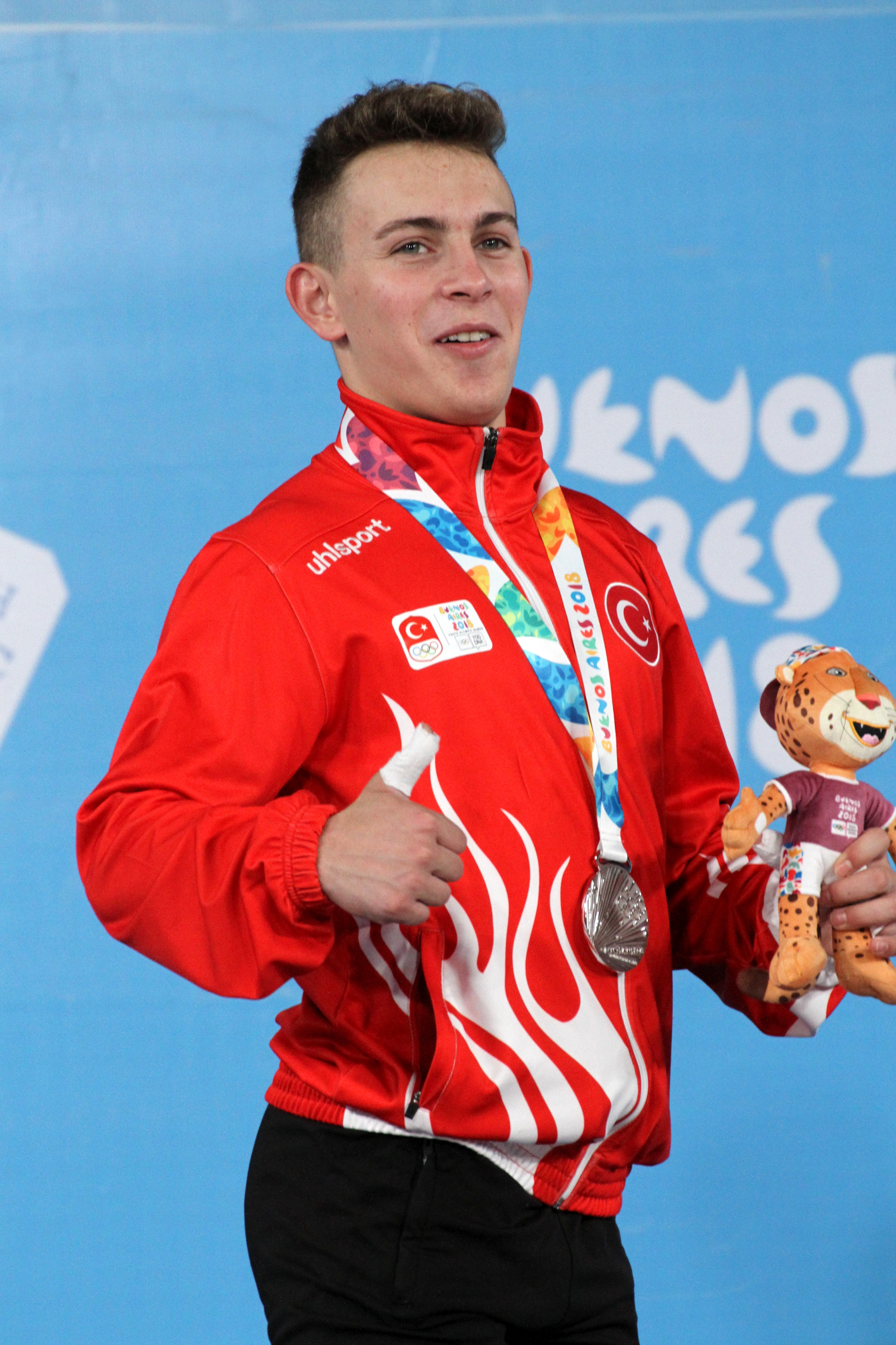 Weightlifting at the 2018 Summer Youth Olympics at 8 October 2018 – Boys' 62 kg